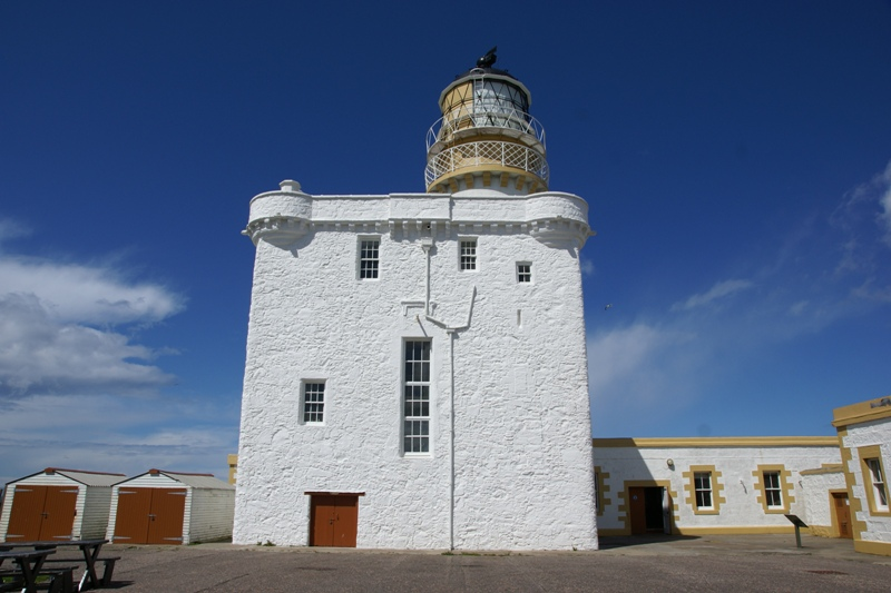 Kinnaird Head Castle Lighthouse, Fraserburgh, Aberdeenshire, Scotland.